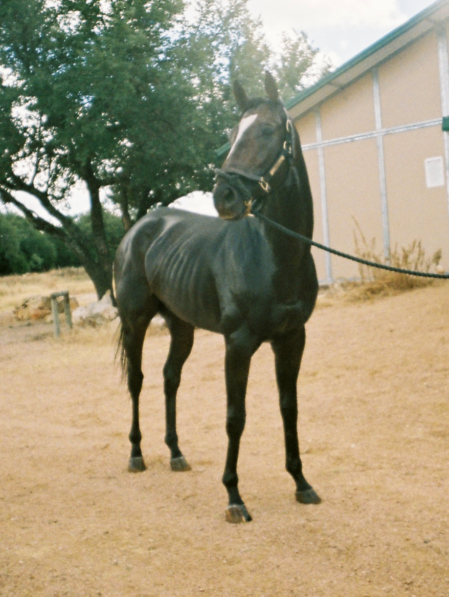 Doctor Decherd is a thoroughbred horse. A foal of 2003, he was a contender for the Triple Crown of Thoroughbred Racing in 2006, photo taken in 2008